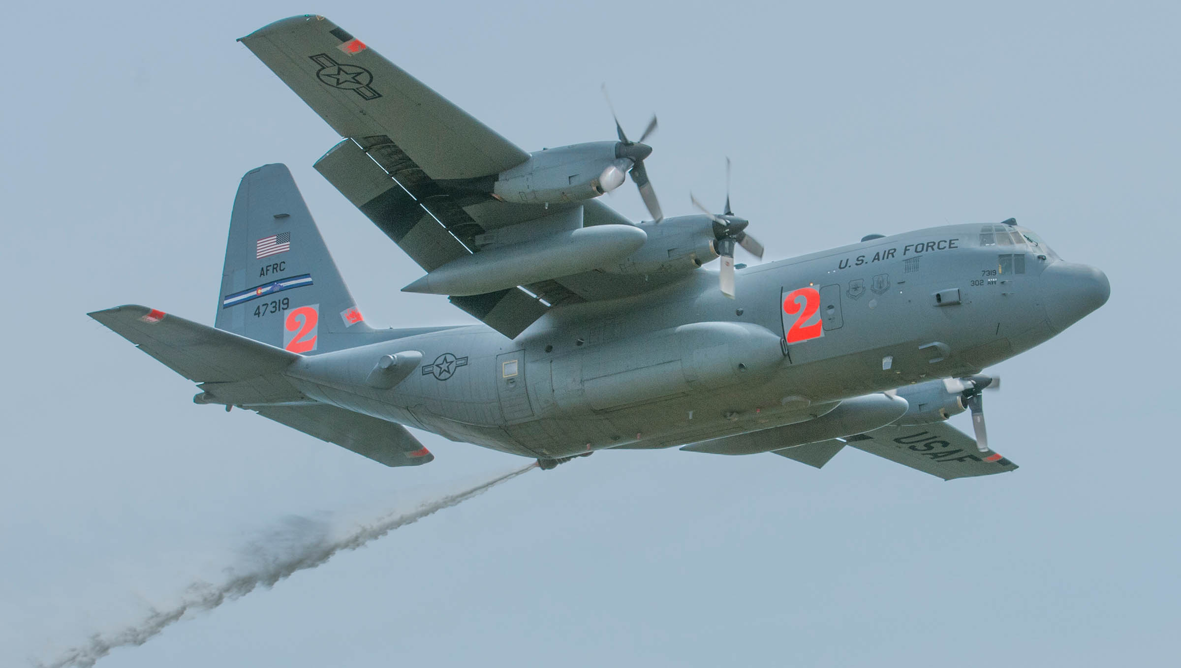 A 302nd Airlift Wing C-130 Hercules performs water-drop training in Southern California on May 3, 2016. The training was conducted at Channel Islands Air National Guard Station, Calif., for the mission’s annual certification. Since 1974, the Modular Airborne Fire Fighting System, a fire retardant delivery system inserted into a C-130, has been a joint effort including the U.S. Forest Service and the Defense Department to fight wildland fires. (Courtesy photo)